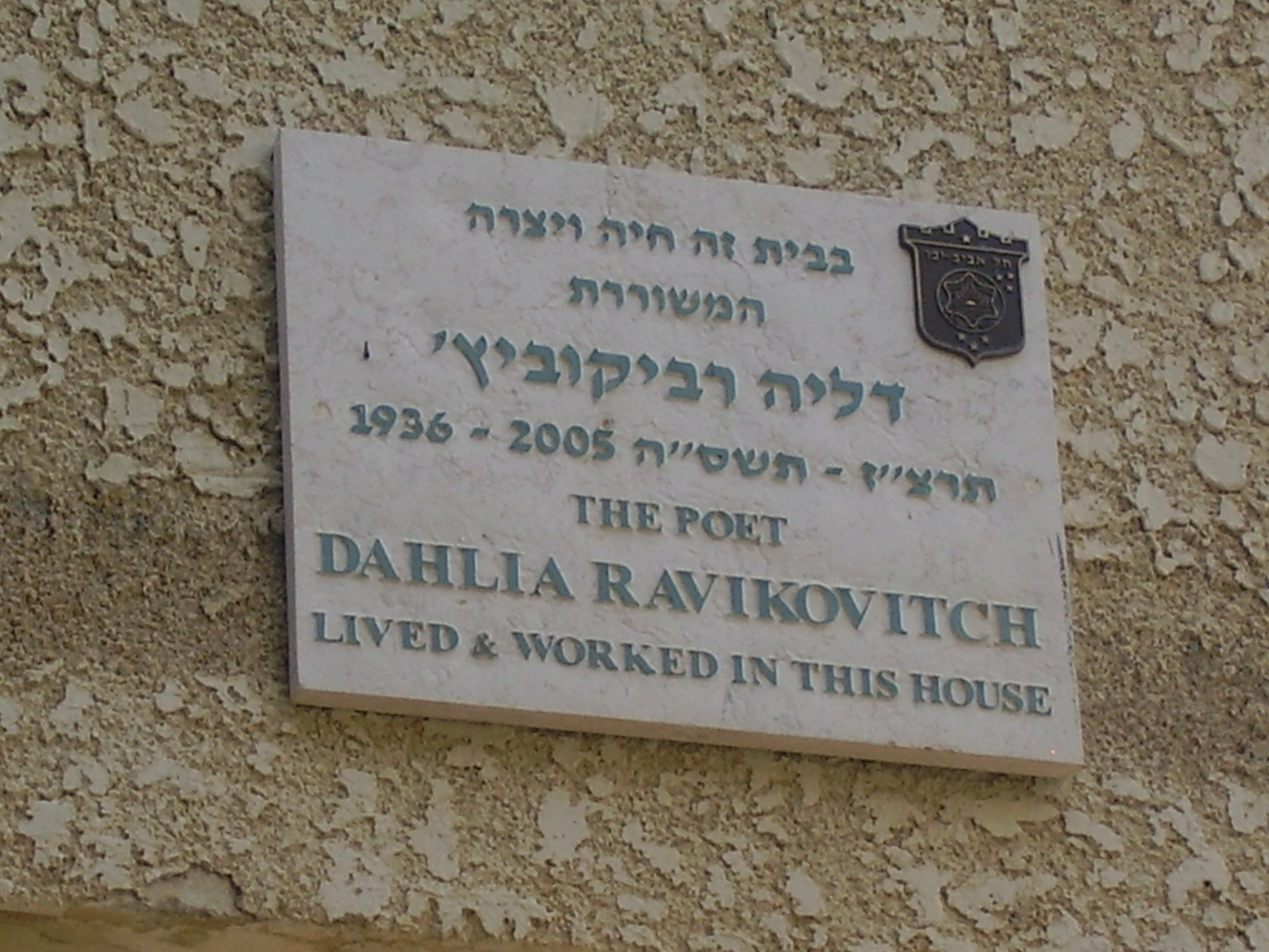 memorial plaque to the poet Dahlia Ravikovitch in Tel Aviv לוחית זיכרון למשוררת דליה רביקוביץ ברח' יהואש 6 בתל אביב